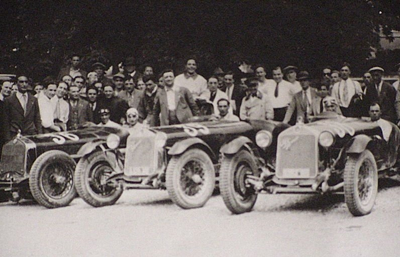 Scuderia Ferrari entries at the Trieste-Opicina hillclimb on June 15, 1930. Entry #36 (leftmost) is Tazio Nuvolari, who won the race. Behind him is teamleader Enzo Ferrari (standing). And, this was the first win for the Scuderia Ferrari racing team. All three cars are Alfa Romeo P2 and/or P3.[1]